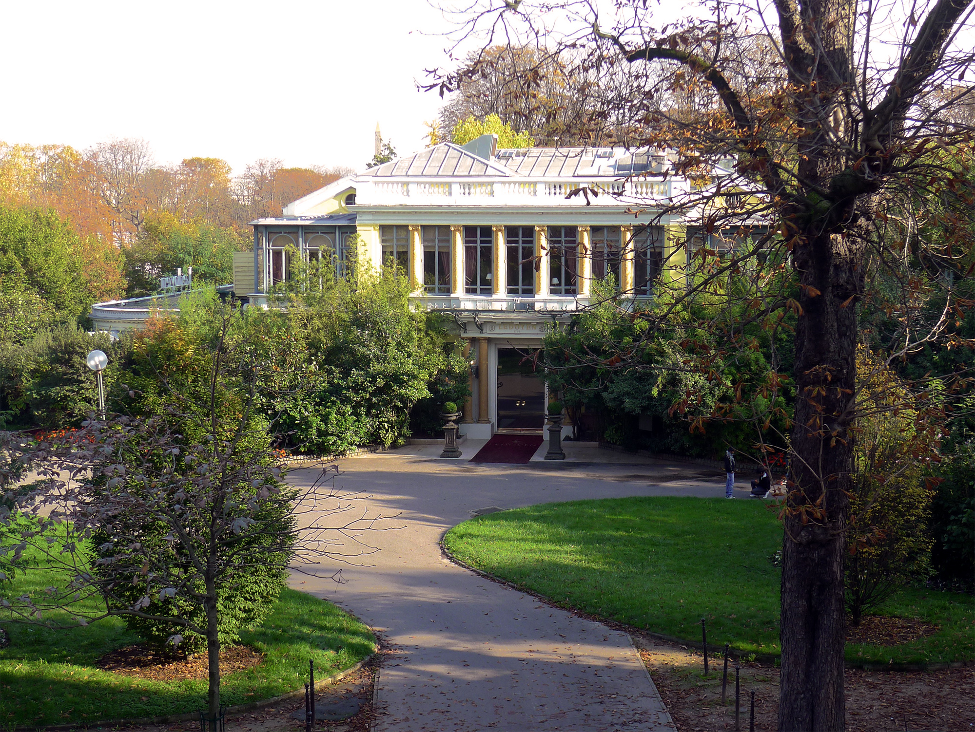 Pavilon of Le Doyen in the Jardins des Champs-Élysées in Paris, 8th district, France. One of the famous restaurant of Paris.